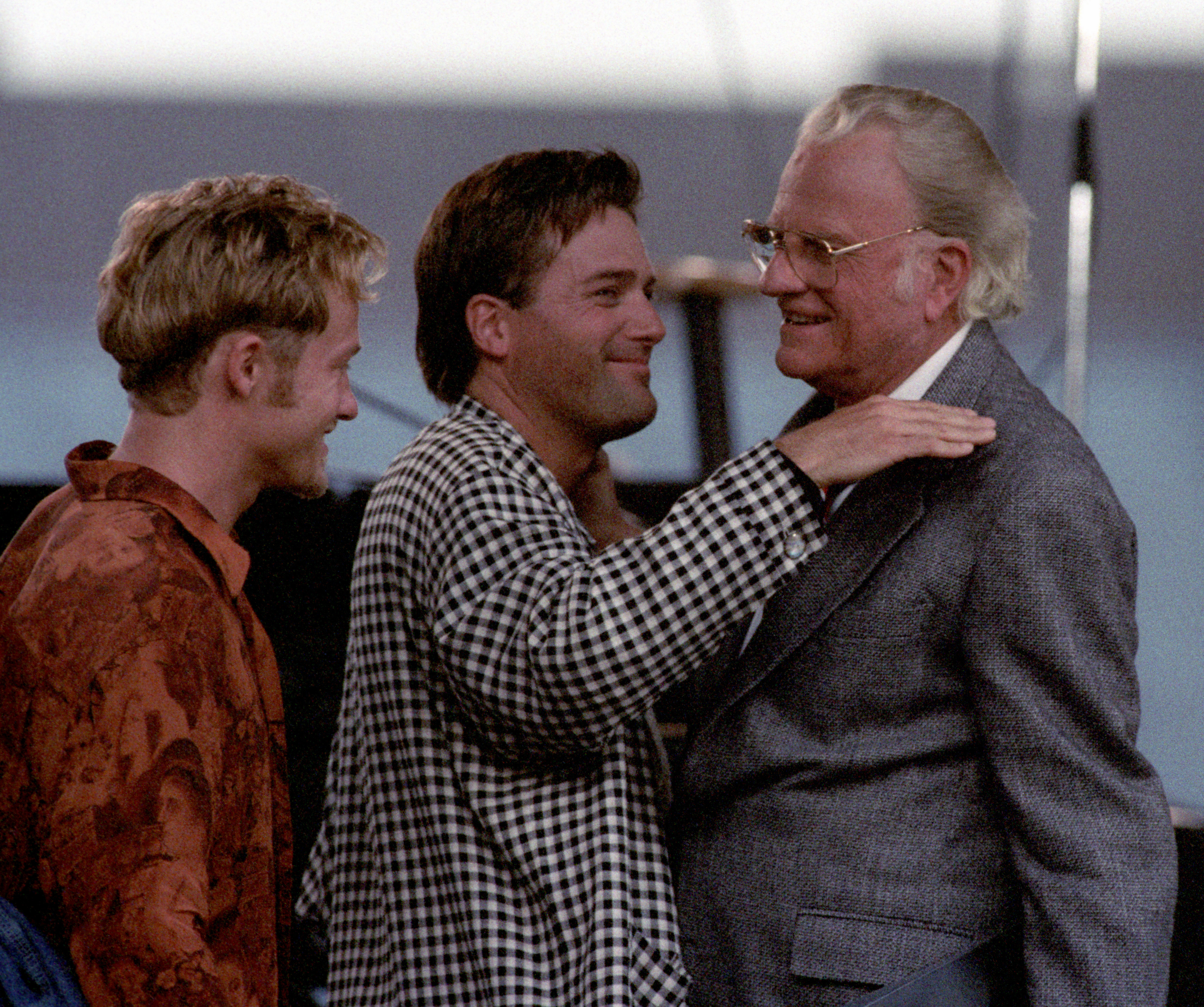 Evangelist Billy Graham, at a Crusade in Cleveland Ohio, on June 11, 1994. Gets a hug from singer Michael W. Smith (in Black and White shirt), and also Toby Mac, (in orange), the lead singer for the Band DC Talk. This was the first time the Billy Graham Crusade had tried a Youth Night, and there were about 85,000 that attended the concert, at Cleveland Stadium, on the shores of Lake Erie. /Photo Paul M. Walsh